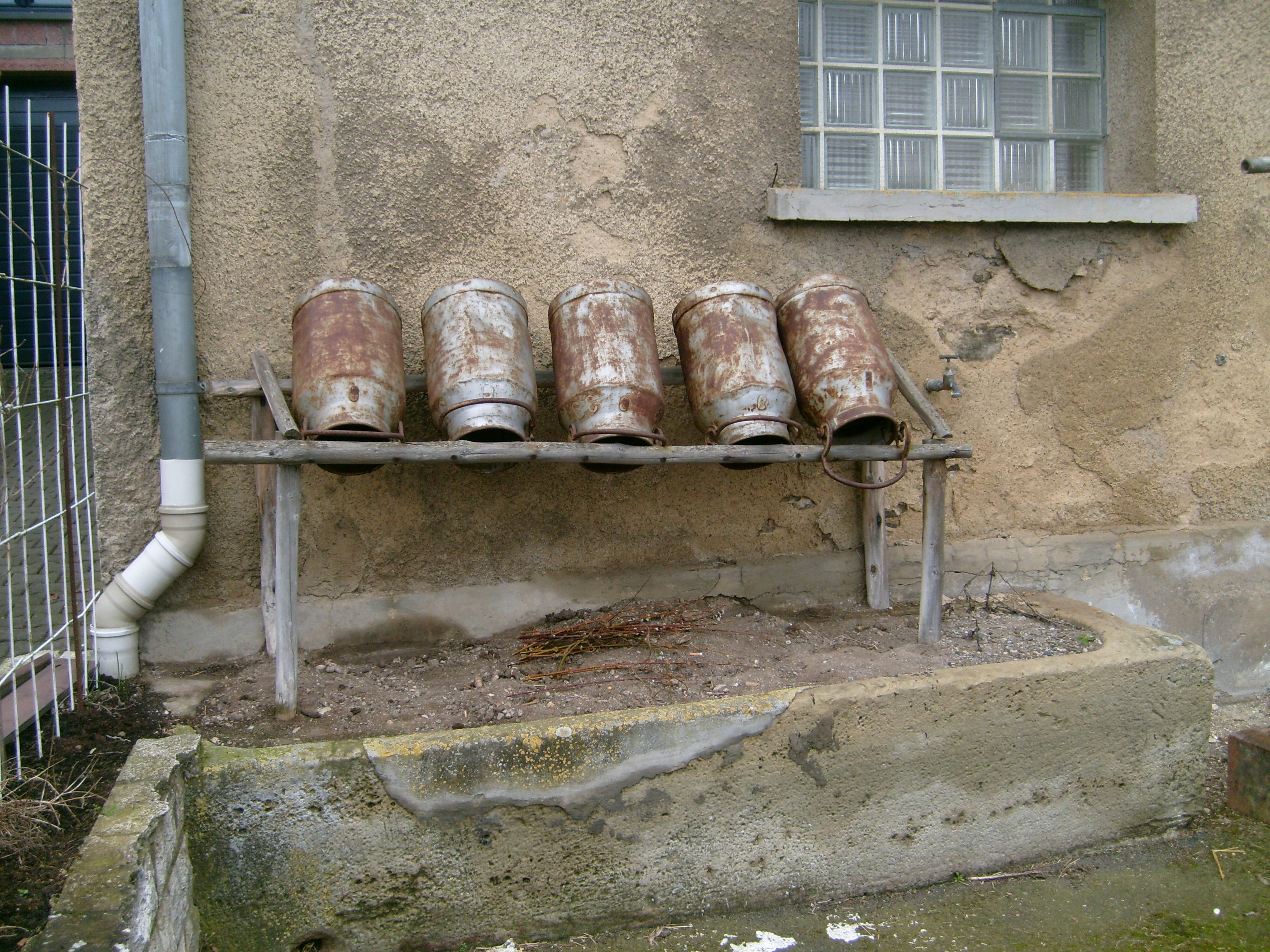 Old milk cans in Merkholtz, Oesling, Luxembourg.